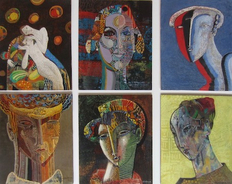 6 paintings in egg tempera, 27 x 22 cm., by the artist Jesús Vilallonga. Photographs by Katherine Slusher